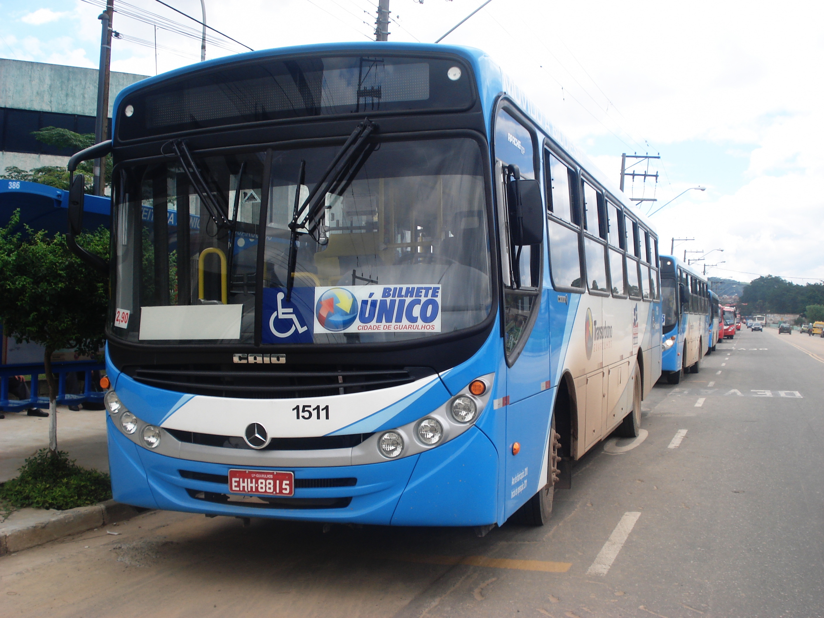 CAIO Apache Vip II bus (reg. EHH-8815, #1511) with Mercedes-Benz OF-1418 chassis of the Empresa de Ônibus Guarulhos S.A. (Guarulhos Bus Company) in Guarulhos, São Paulo, Brazil.